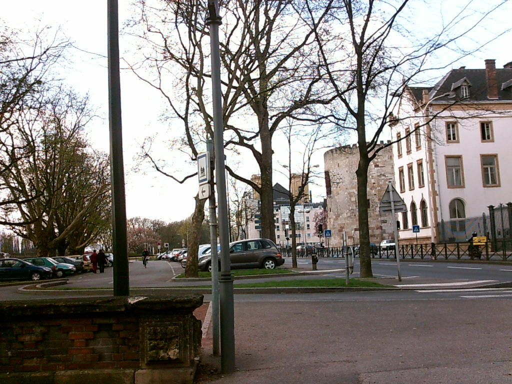 Thionville, an der Bastion